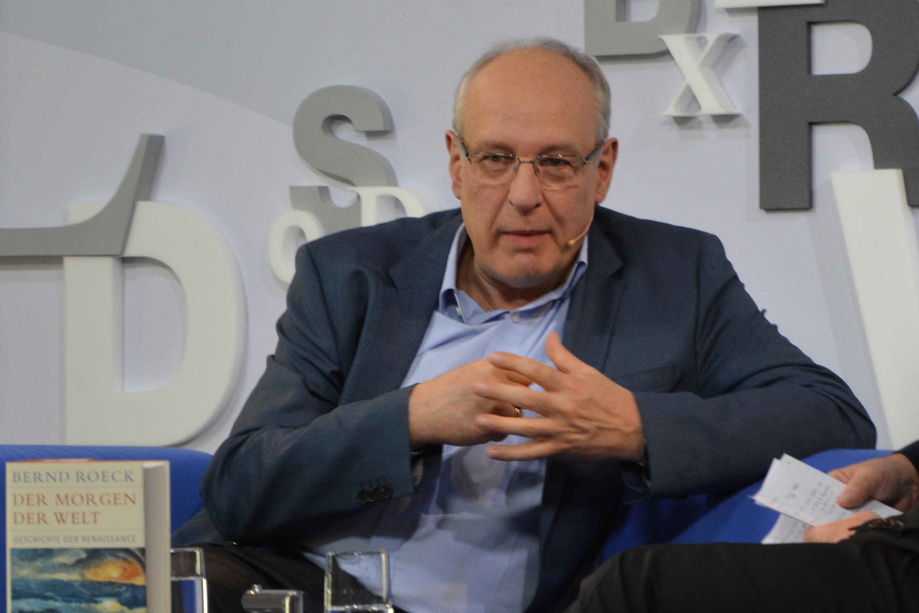 Bernd Roeck at Frankfurt Book Fair 2017